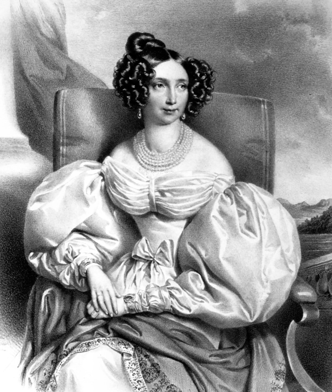 A lithographic work by Joseph Kriehuber